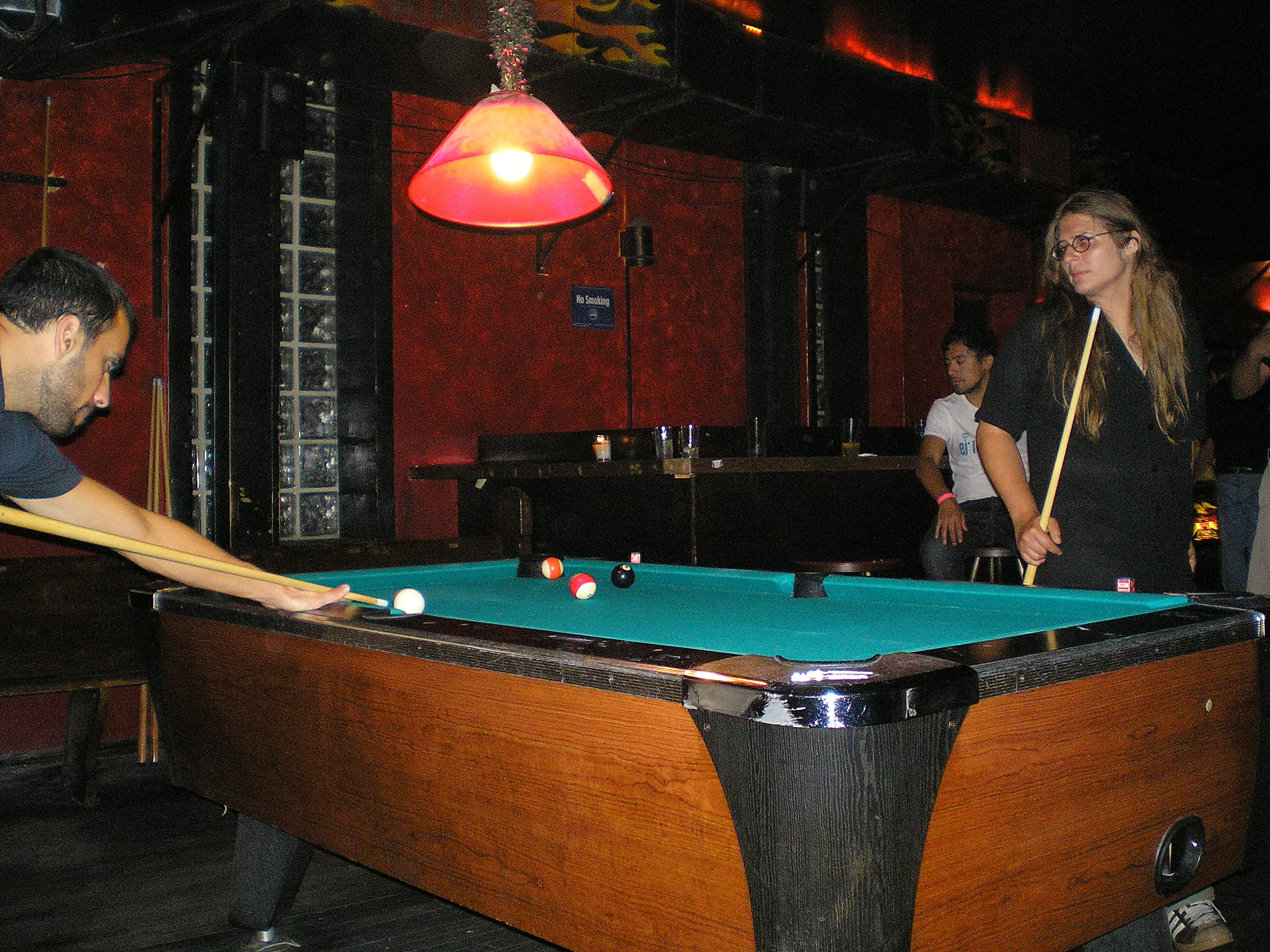 The author of this image is me, David Shankbone. 6 September 2006. Pool Players playing 8 Ball in a New York City Bar.